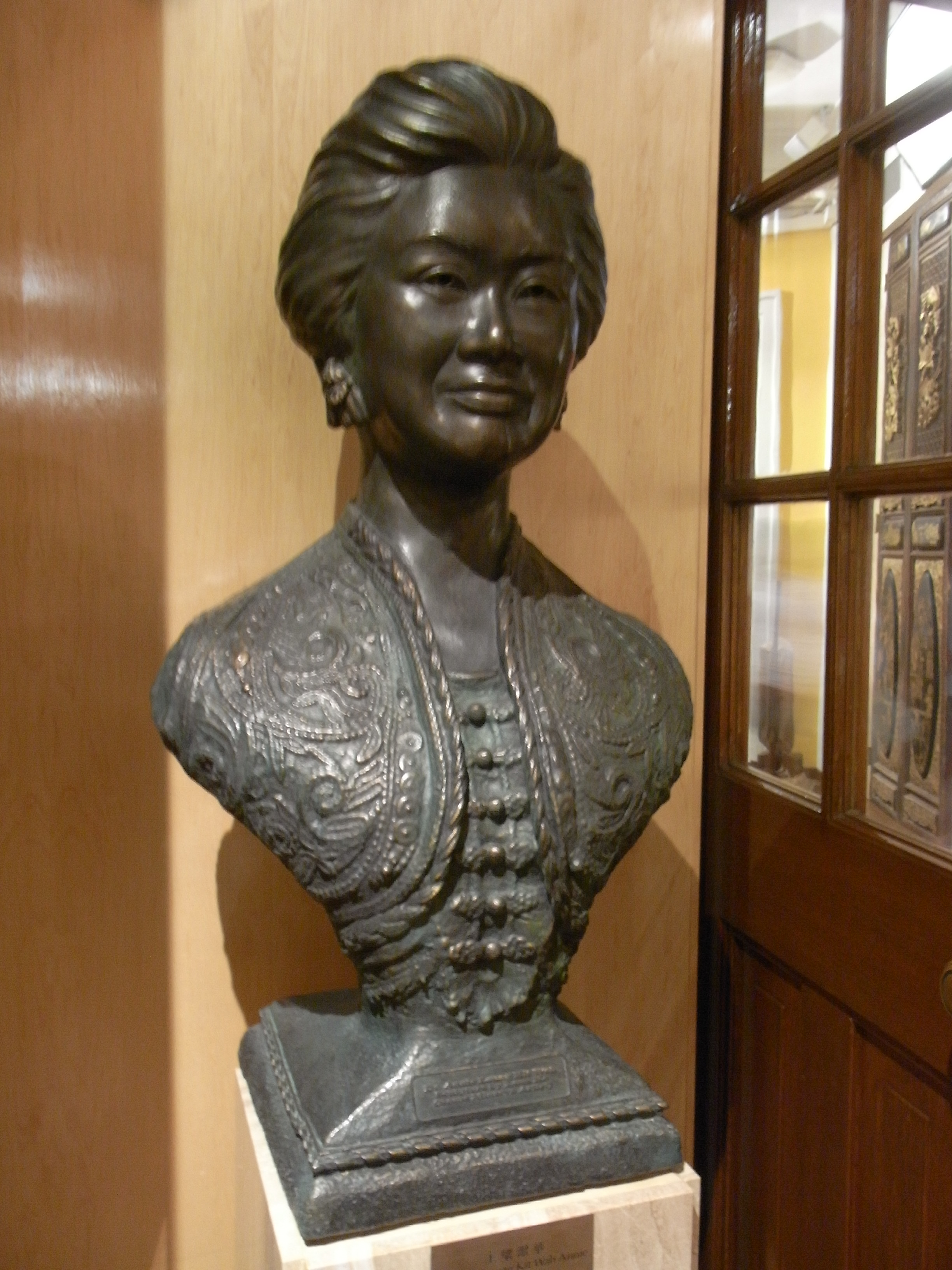 香港大學美術博物館 王梁潔華博士 半身人像